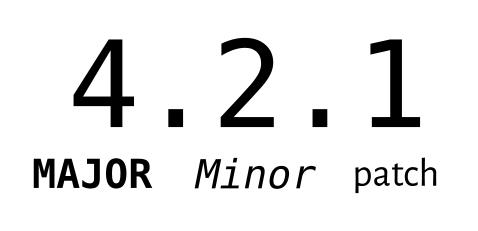 a version number made of a major, a minor, and a patch number: in Semantic Versioning, the major number would be incremented for every release containing a breaking change, while the minor would be incremented for every release containing a new feature that doesn't break previously published interfaces. Patch versions would then just be for releases fixing something, without breaking any interface or adding any new feature